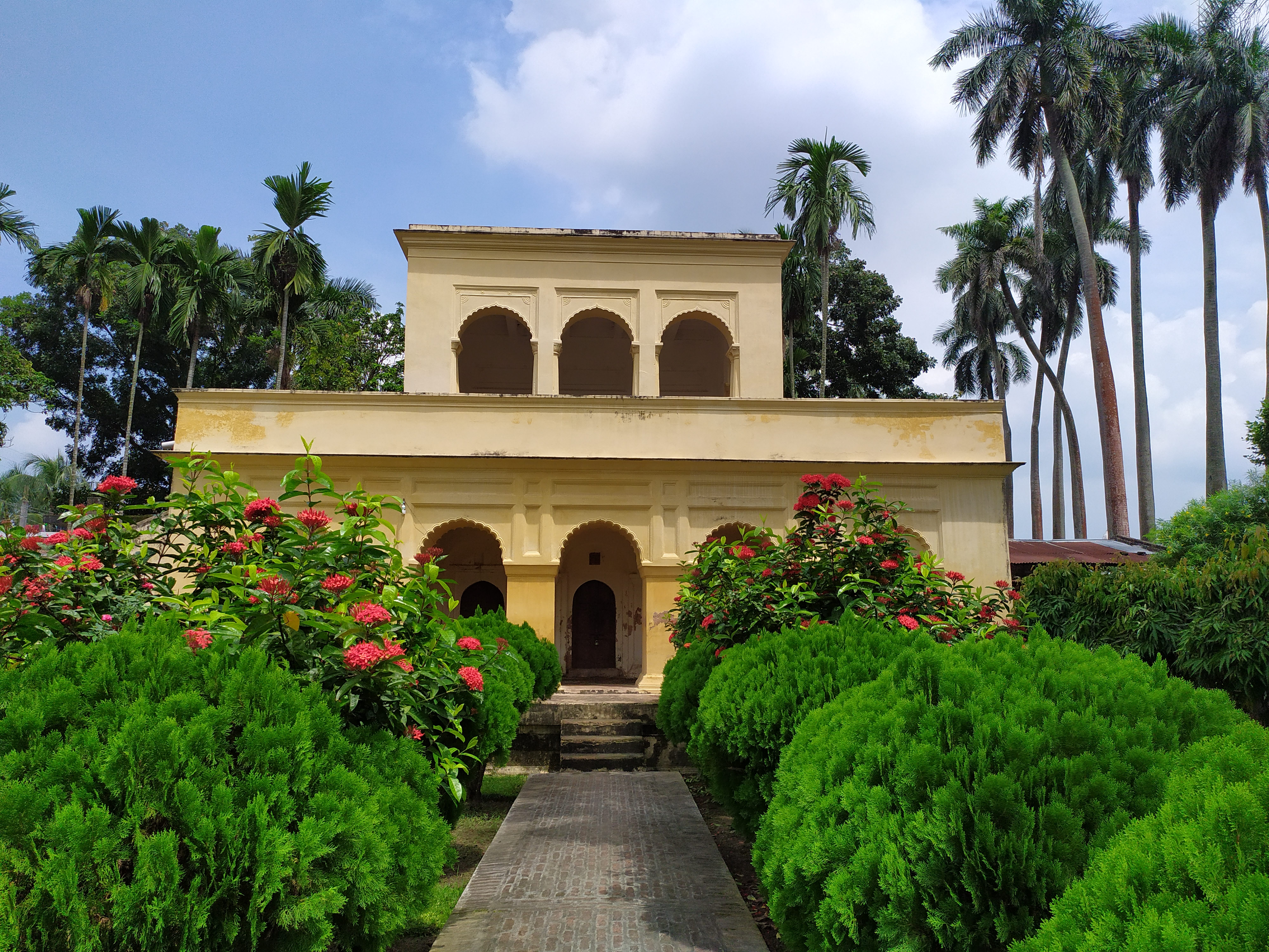 Gopal Mandir, Puthia